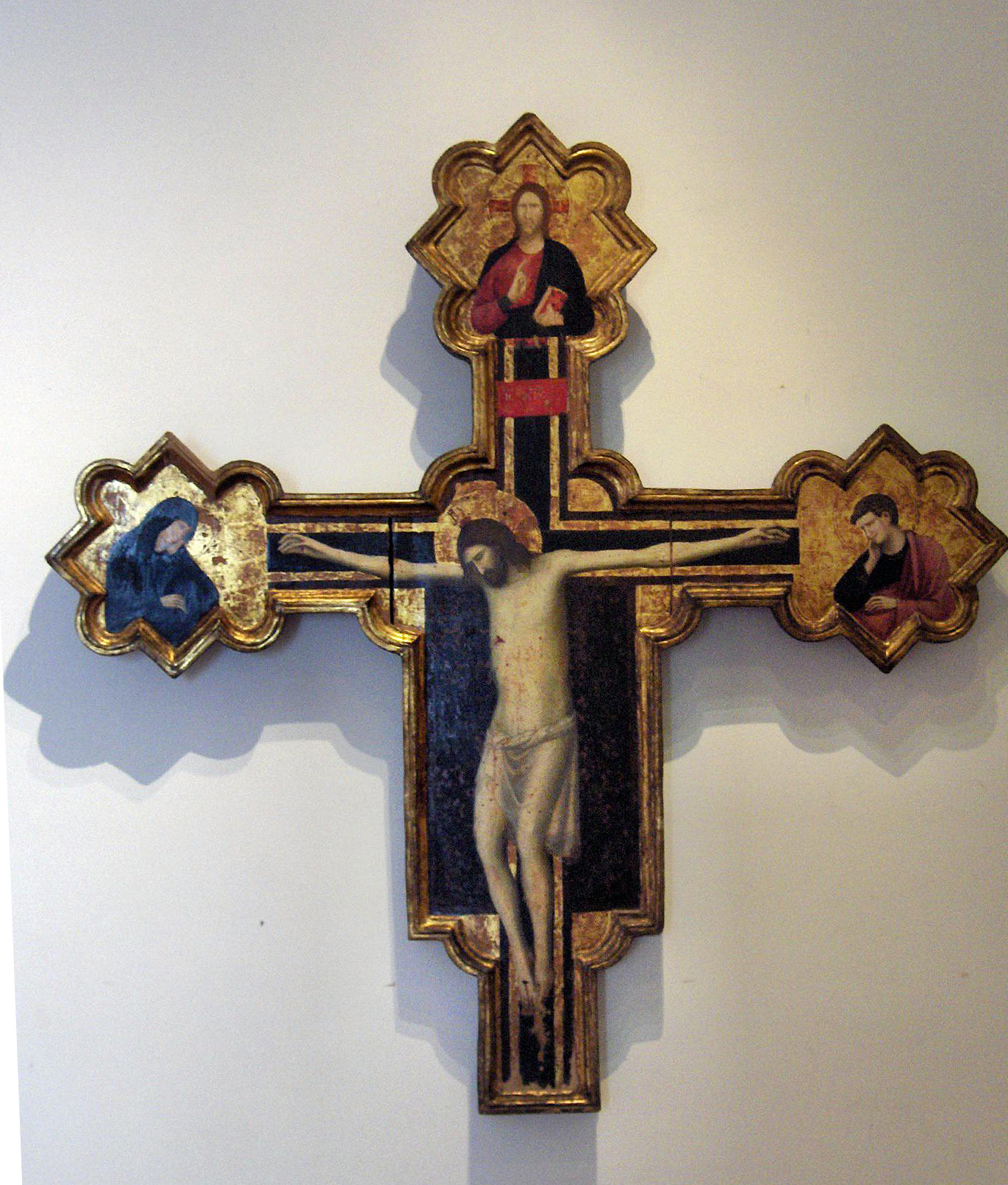 Painted Cross